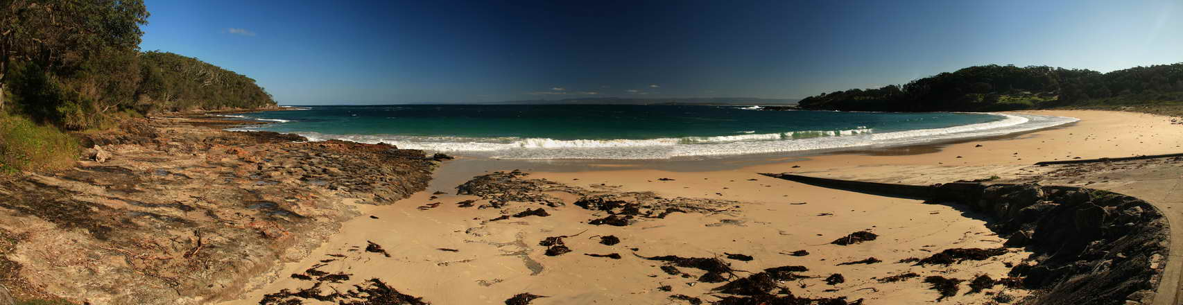 Wreck Bay from Booraria Rd